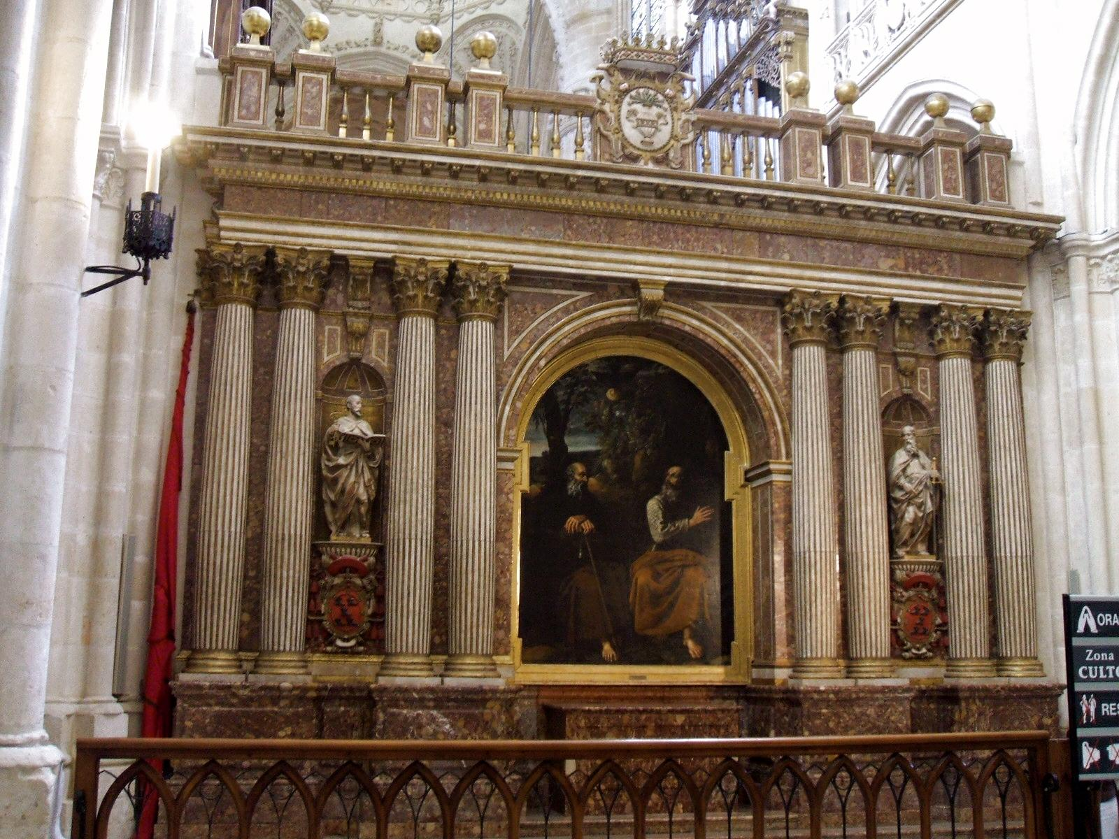 Frontal del trascoro de la Catedral de Burgos, obra barroca clasicista de principios del siglo XVII (Burgos, Castilla y León, España)